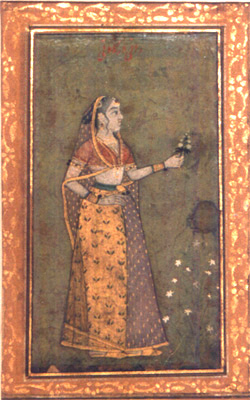 Transferred from the School of Arts and crafts in 1943. The picture shows, the Rani in standing posture, she holds flower in her left hand. An inscription is written on the top portion of the painting.